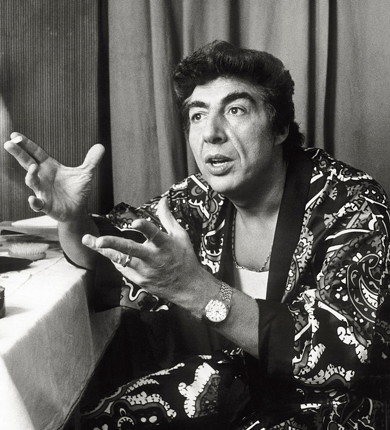 The comedian and actor Gino Bramieri is photographed in his dressing room of Teatro Alfieri during the stage of 'Povera Italia', by Garinei and Giovannini. Turin, 1971.